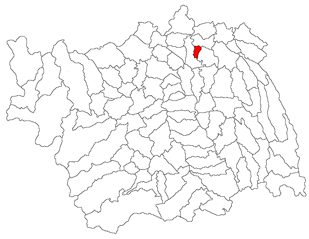 Locator map of the commune of Prăjești, Bacău